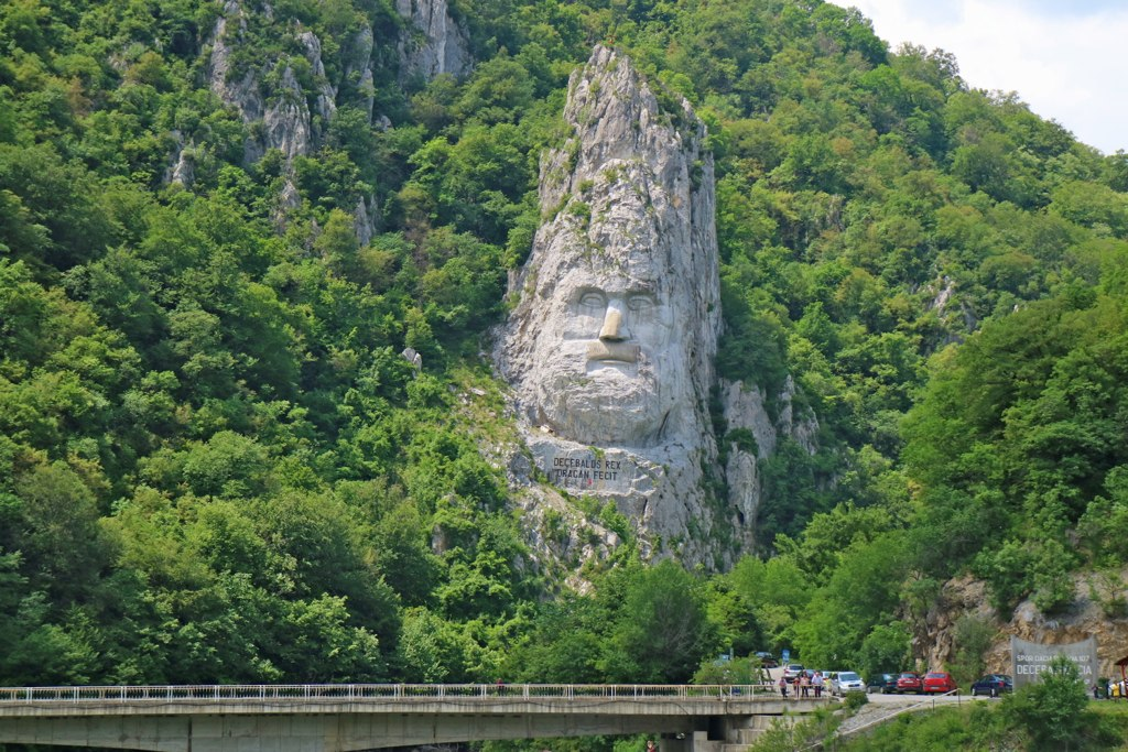 Rock Sculpture of Decebalus